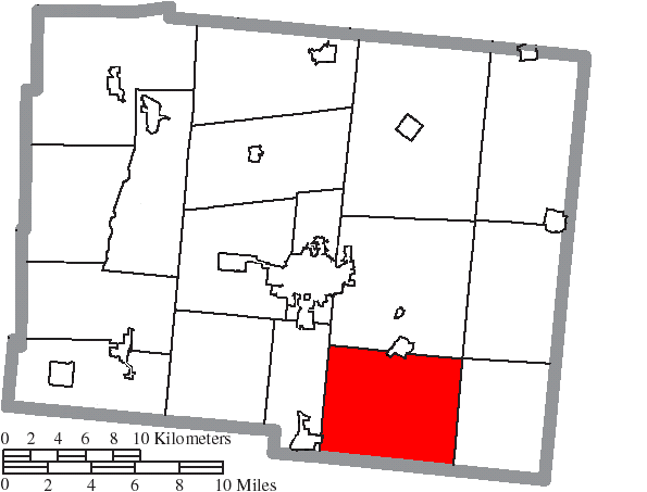 Map of the municipal and township boundaries of Logan County, Ohio, United States, as of the 2000 census, with the location of Monroe Township highlighted. Township borders are shown only in unincorporated areas in order to differentiate incorporated and unincorporated areas more clearly.